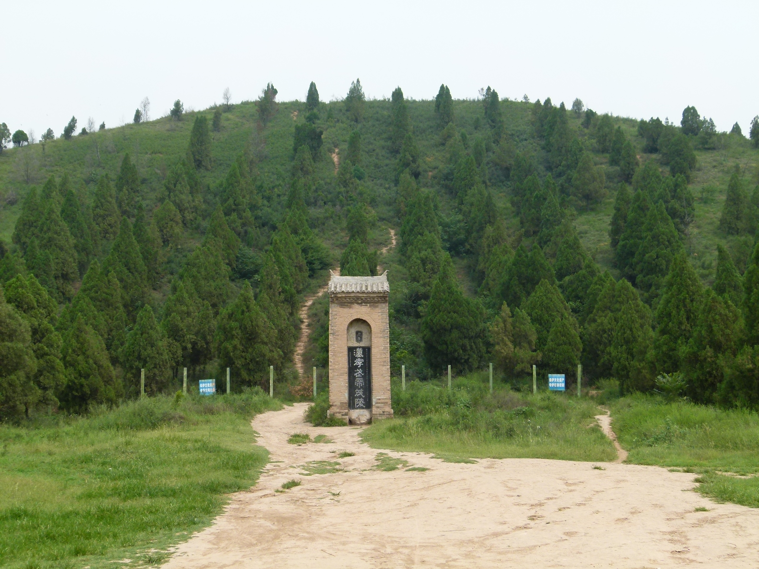 Maoling Mausoleum in Shaanxi (China)